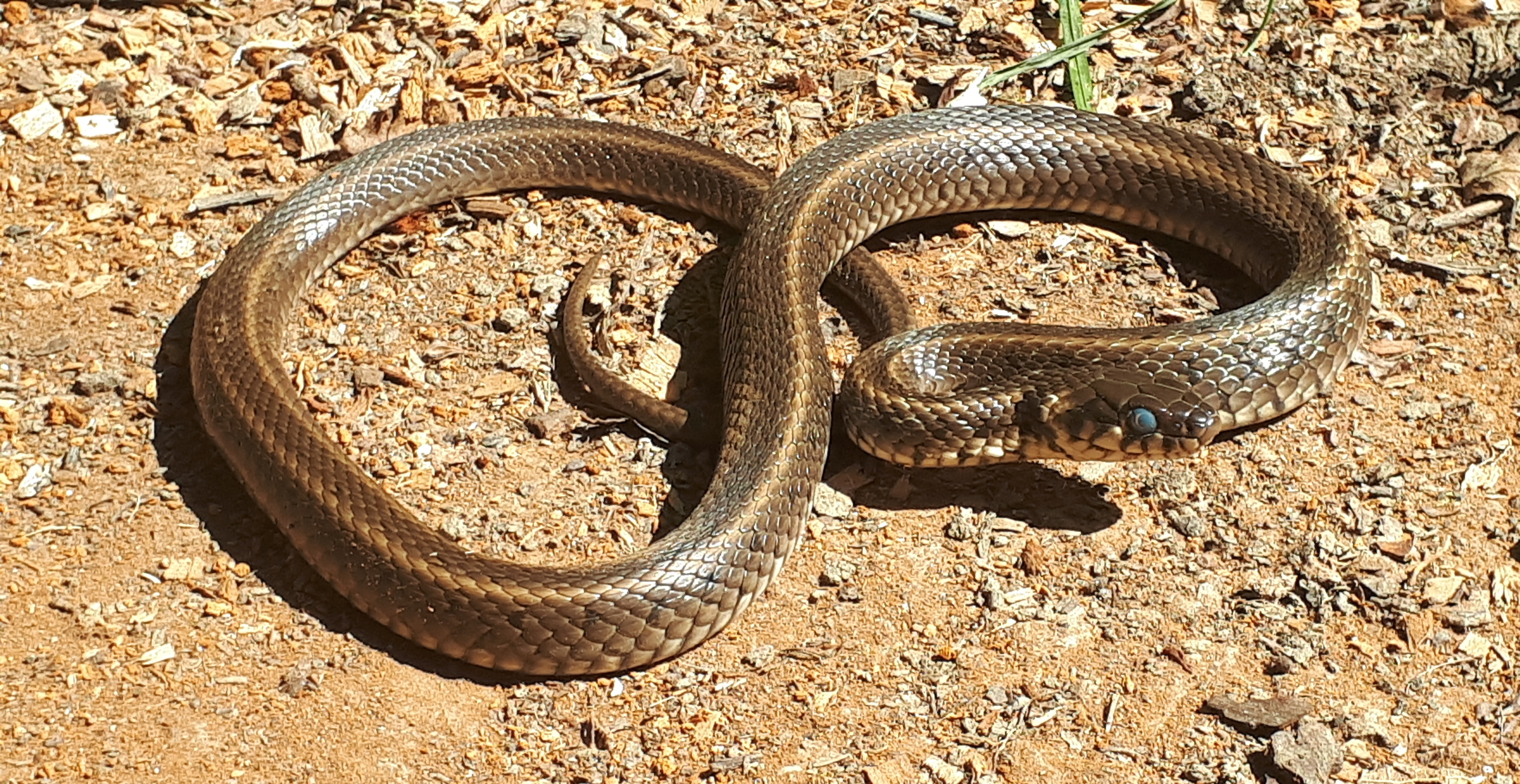 Belouška